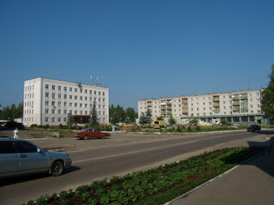 The center of Kulebaki in summer